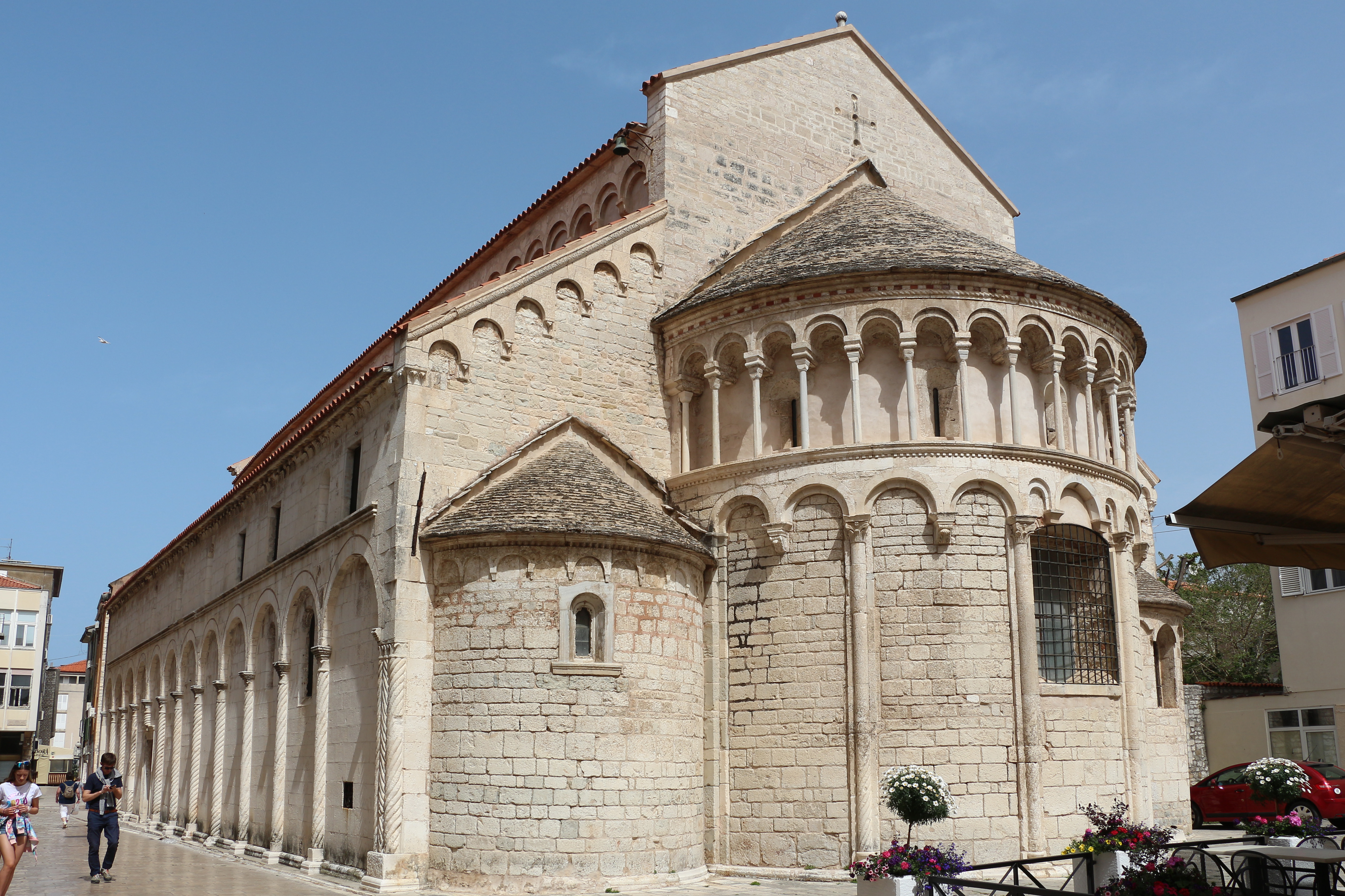 Church of St. Chrysogonus in Zadar, Croatia